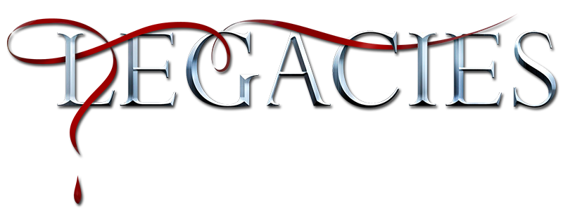 Legacies TV Series Logo